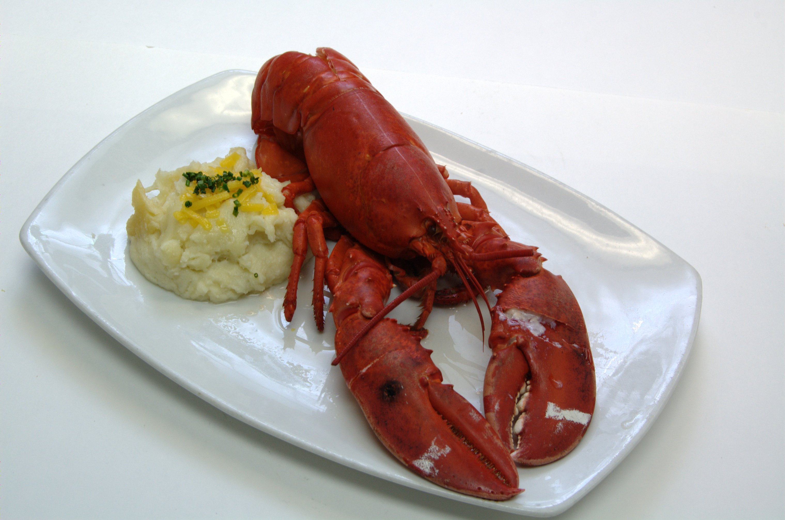 Steamed 1.25lb lobster served with claws cracked and tail split alongside mashed potatoes. Dish courtesy of The Boathouse at Sunday Park.